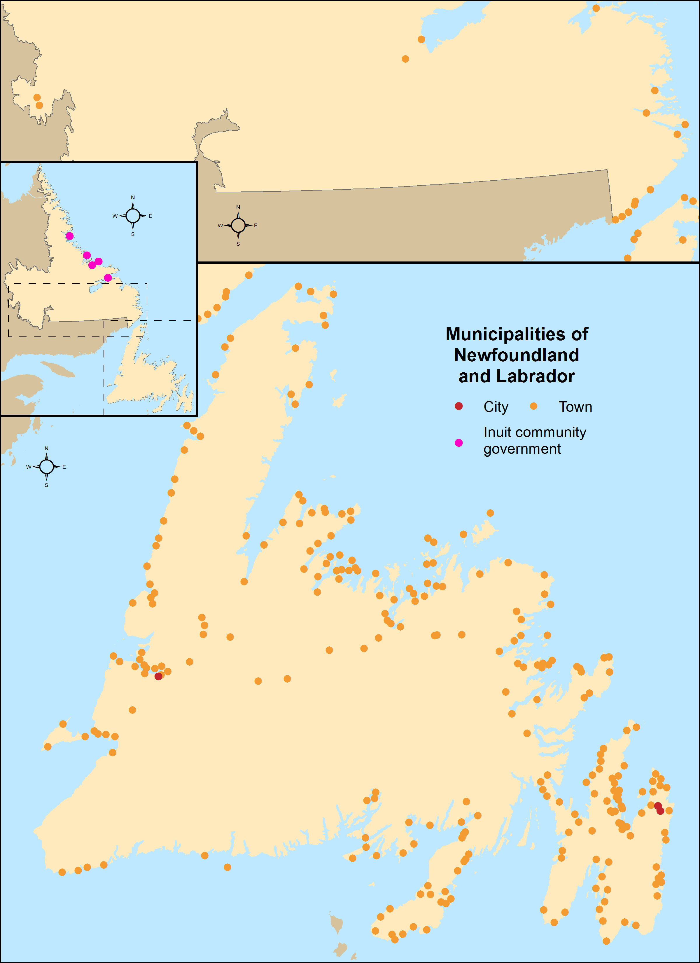 Distribution of Newfoundland and Labrador's 271 municipalities (3 cities and 268 towns) utilizing Statistics Canada's 2015 intercensal census subdivision boundaries